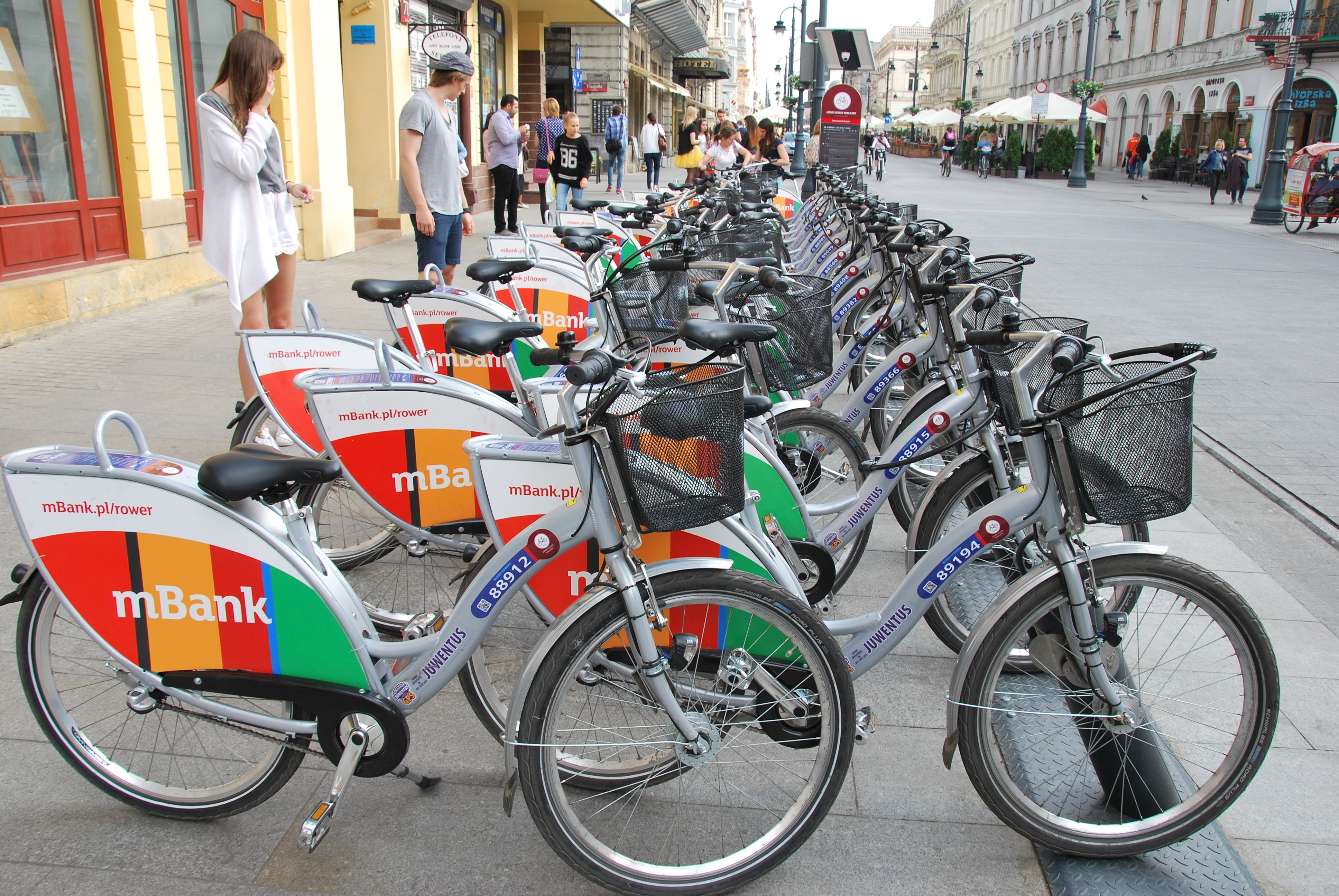 Łódzki Rower Publiczny, Piotrkowska Street